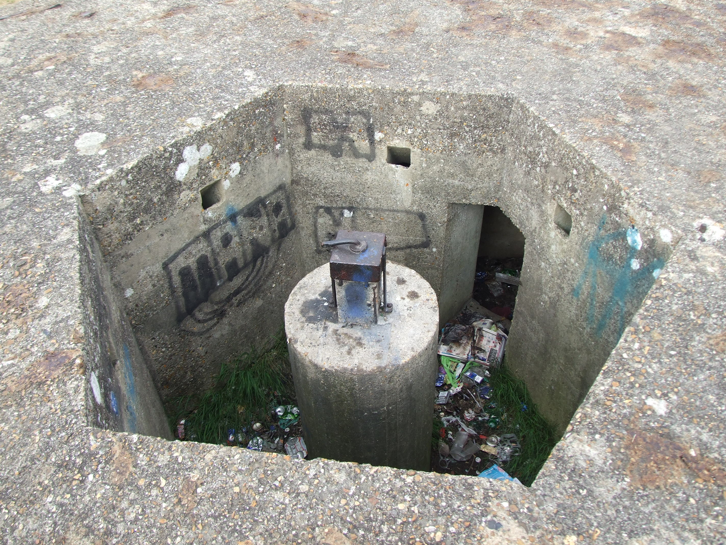 Pillbox Type 27, detail of central anti-aircraft position. Sudbury.